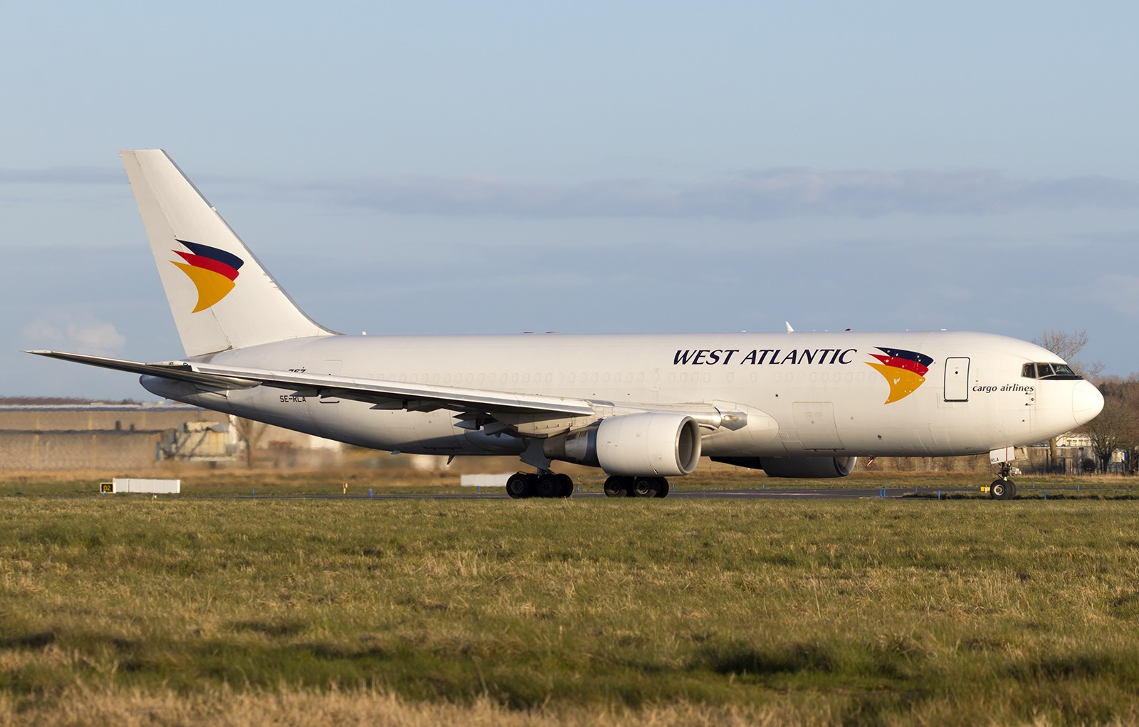 Aircraft: Boeing 767-232(BDSF) Reg: SE-RLA full info | SE-RLA photos Serial #: 22224 Airline: West Atlantic Airlines Photo Date: Mar 25, 2018 Uploaded: Apr 02, 2018 Shannon/Limerick - EINN, Ireland